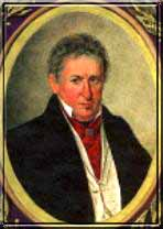 portrait